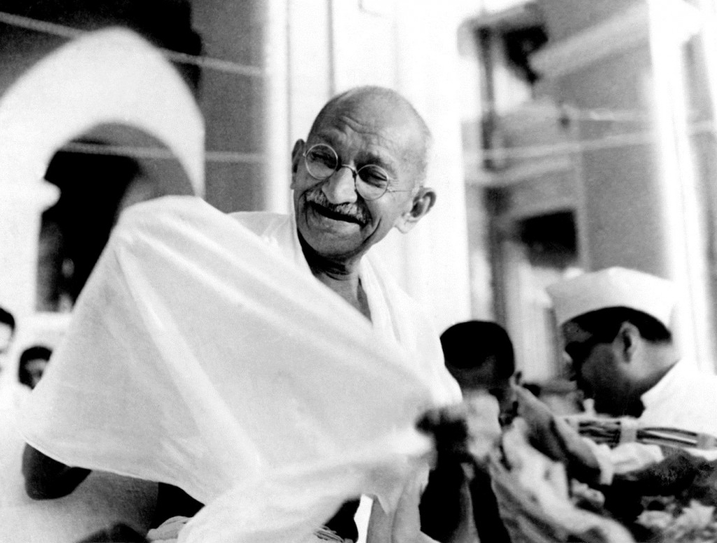 Mahatma Gandhi laughing.